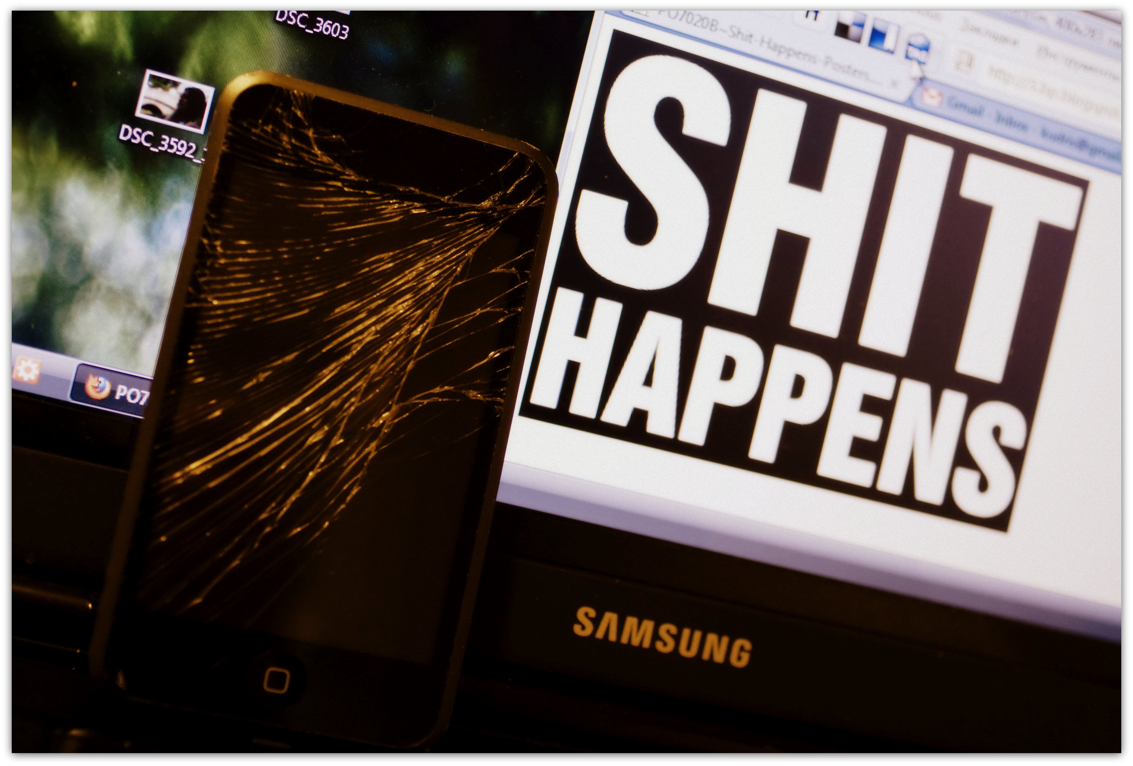 Writing «Shit_happens»